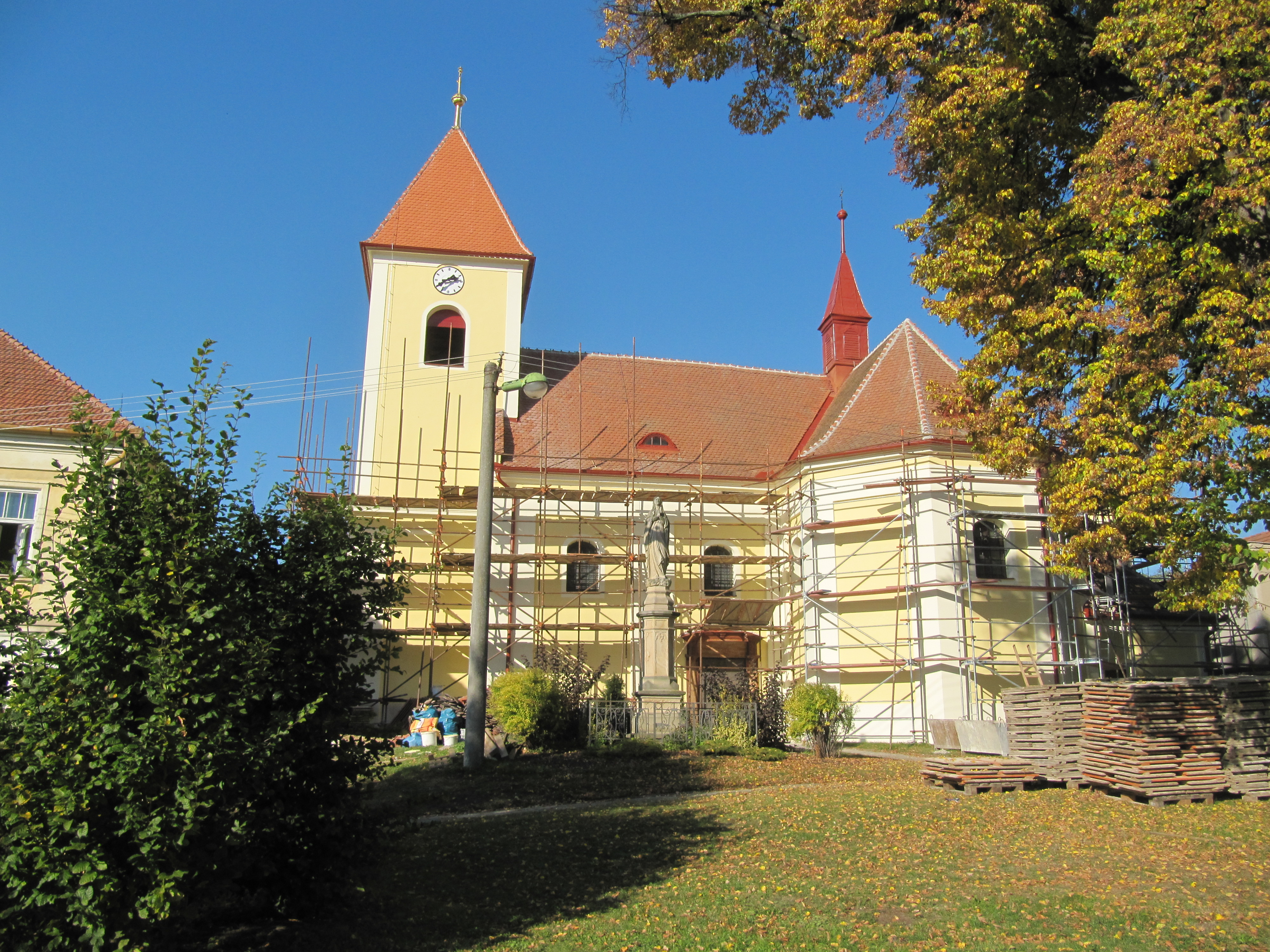 Chvalkovice in Vyškov District, Czech Republic. Church of St. Bartholomew.